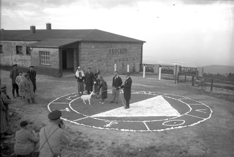 An interesting witch experiment in modern times! On the Brocken in Harz, the well-known English Prof. Harry Price for the first time performed a great experiment in order to investigate and confirm the mystical belief in the old saying. As experiment served the old saying that in a full moon-night, a young goat on Brocken would turn into a handsome young man through a maiden pure in heart. The magical triangle on Brocken, in which the whitch experiment took place. Prof. Price with the young goat, at his side Prof. Joad and Ms. Urta Bohn, the maiden pure in heart, who performed the experiment.